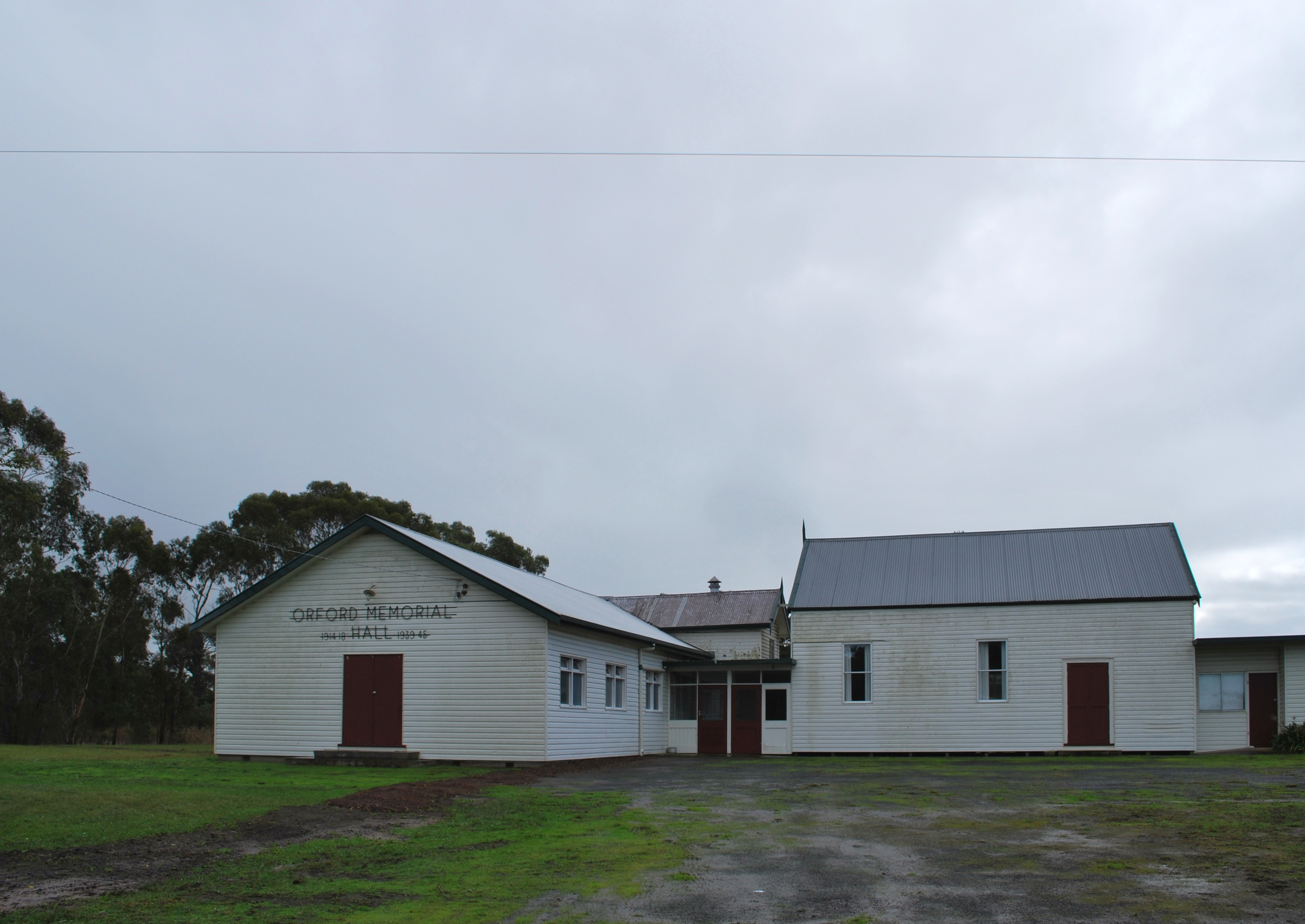 Memorial hall at Orford, Victoria